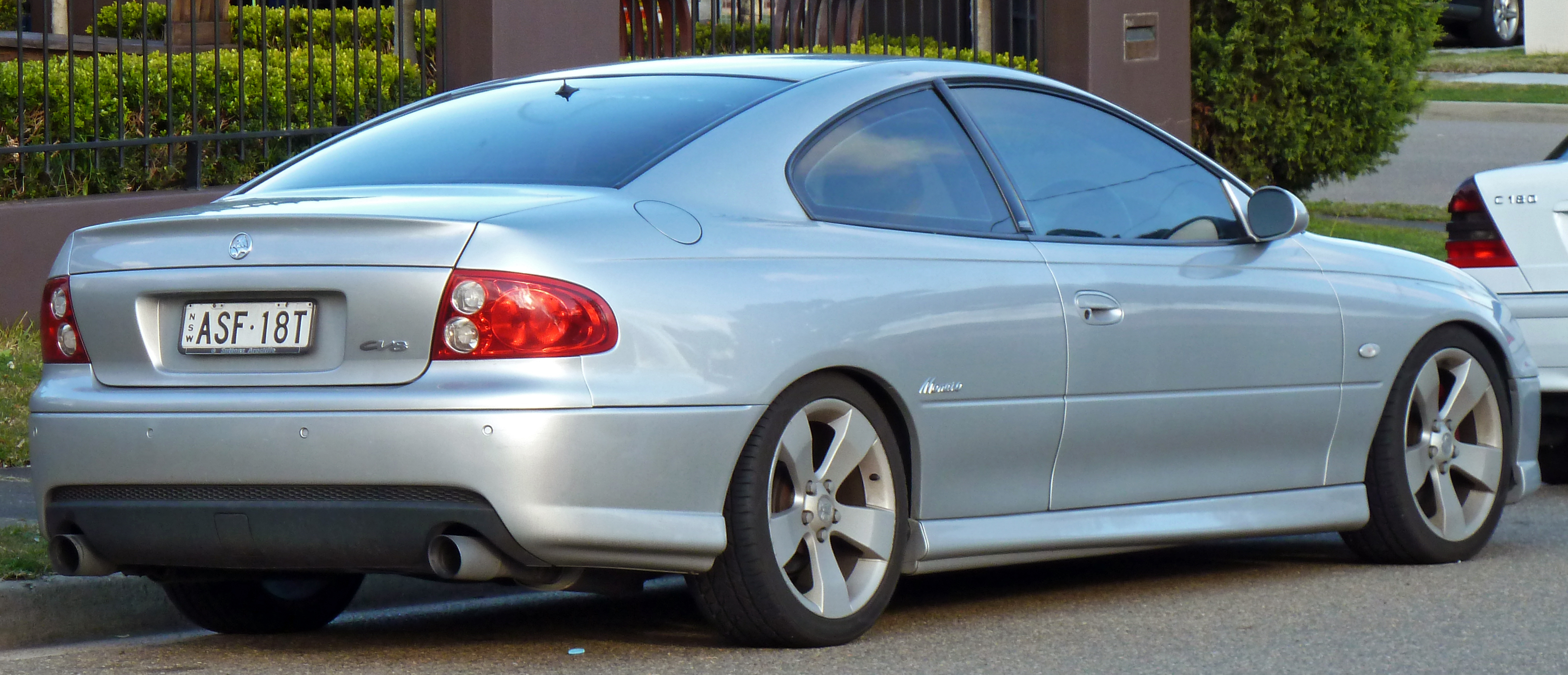 2004–2005 Holden VZ Monaro CV8 coupe. Photographed in Sans Souci, New South Wales, Australia.